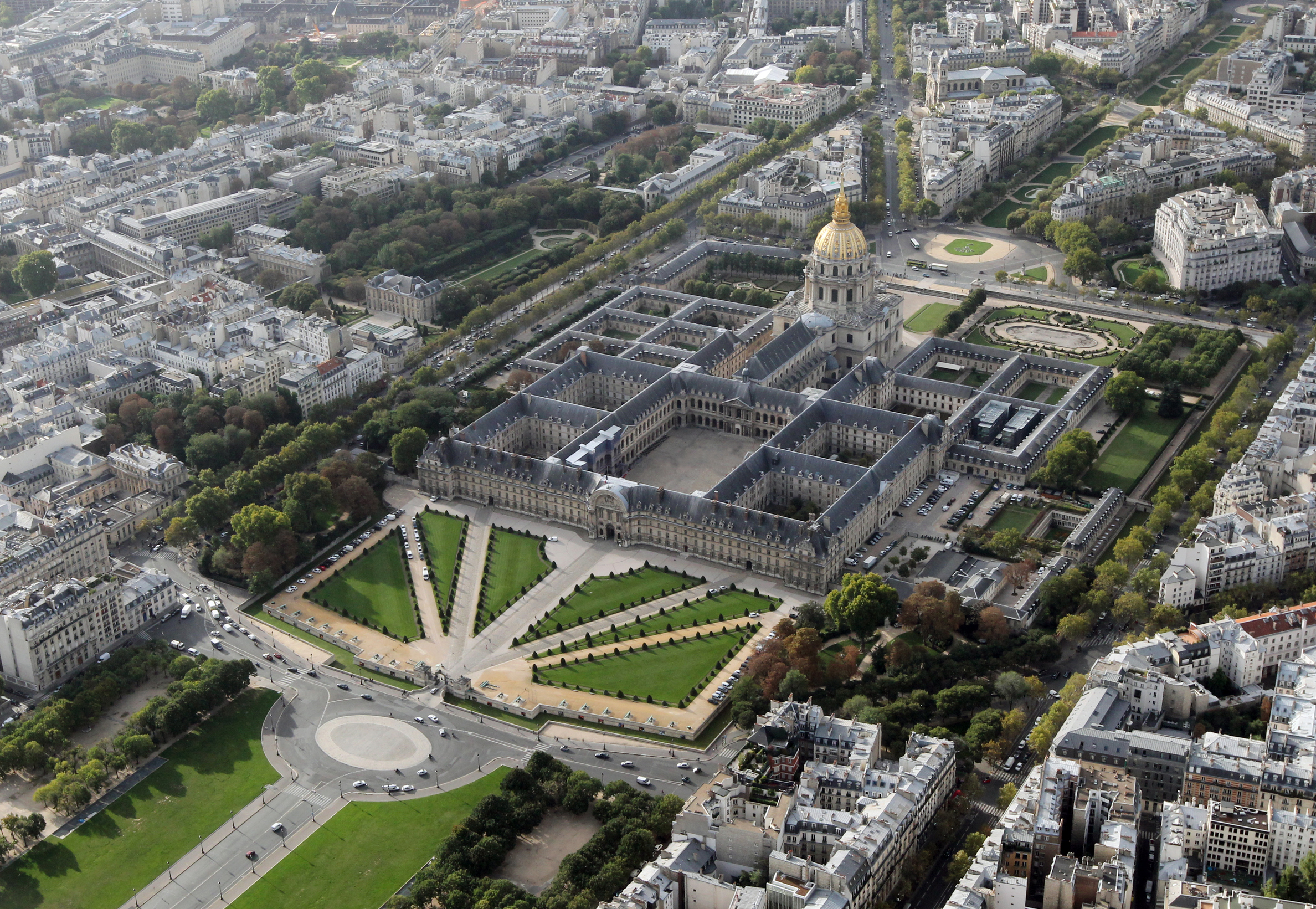 Vue du l'hôtel des Invalides